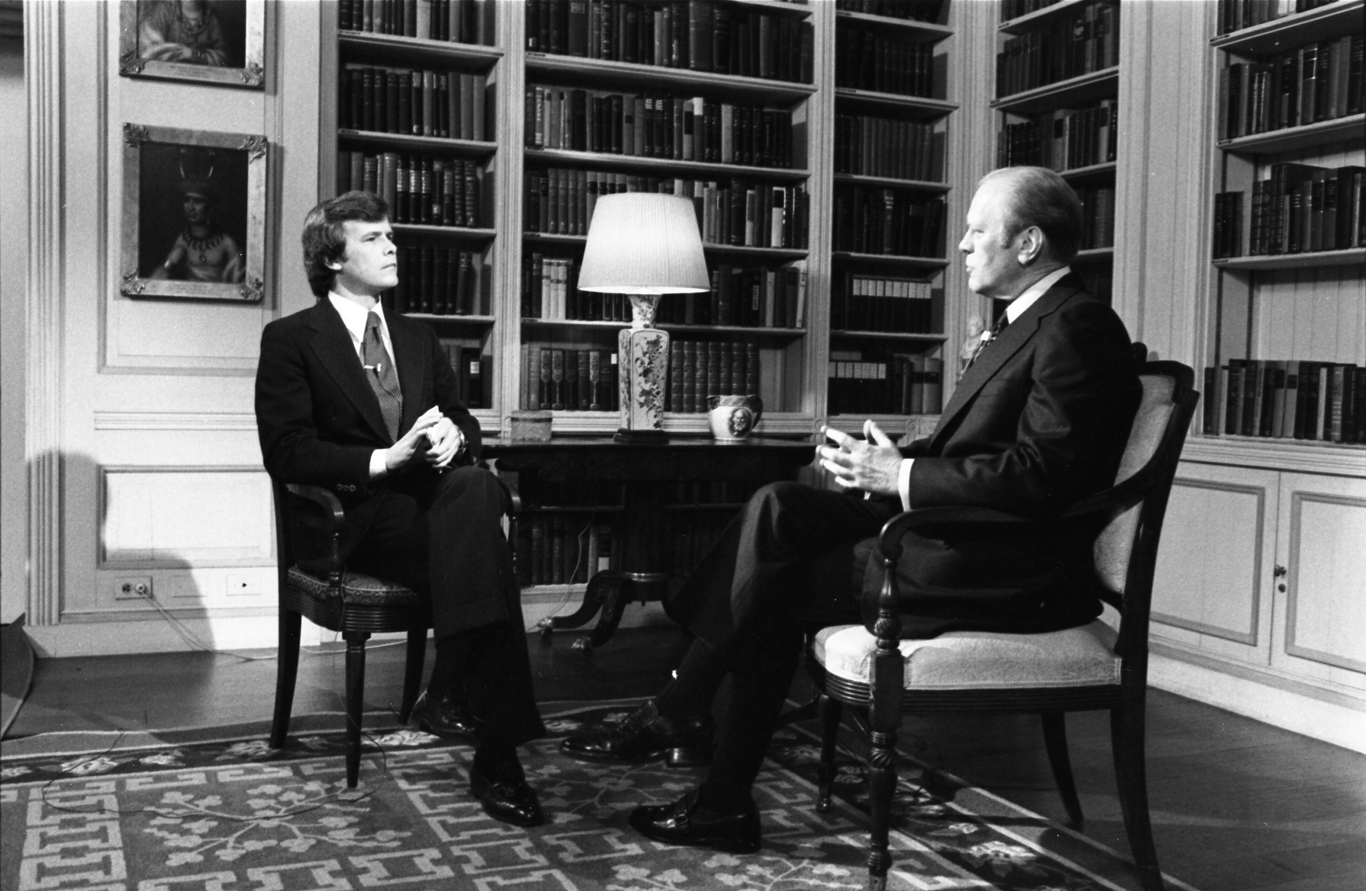 1976, January 3 – Ground Floor – Library – The White House – Washington, DC – Gerald R. Ford, Tom Brokaw – seated, talking – Taping an NBC Interview Re Foreign Policy with Tom Brokaw and John Chancellor (over loud speaker) for Television Broadcast on 1/5/76